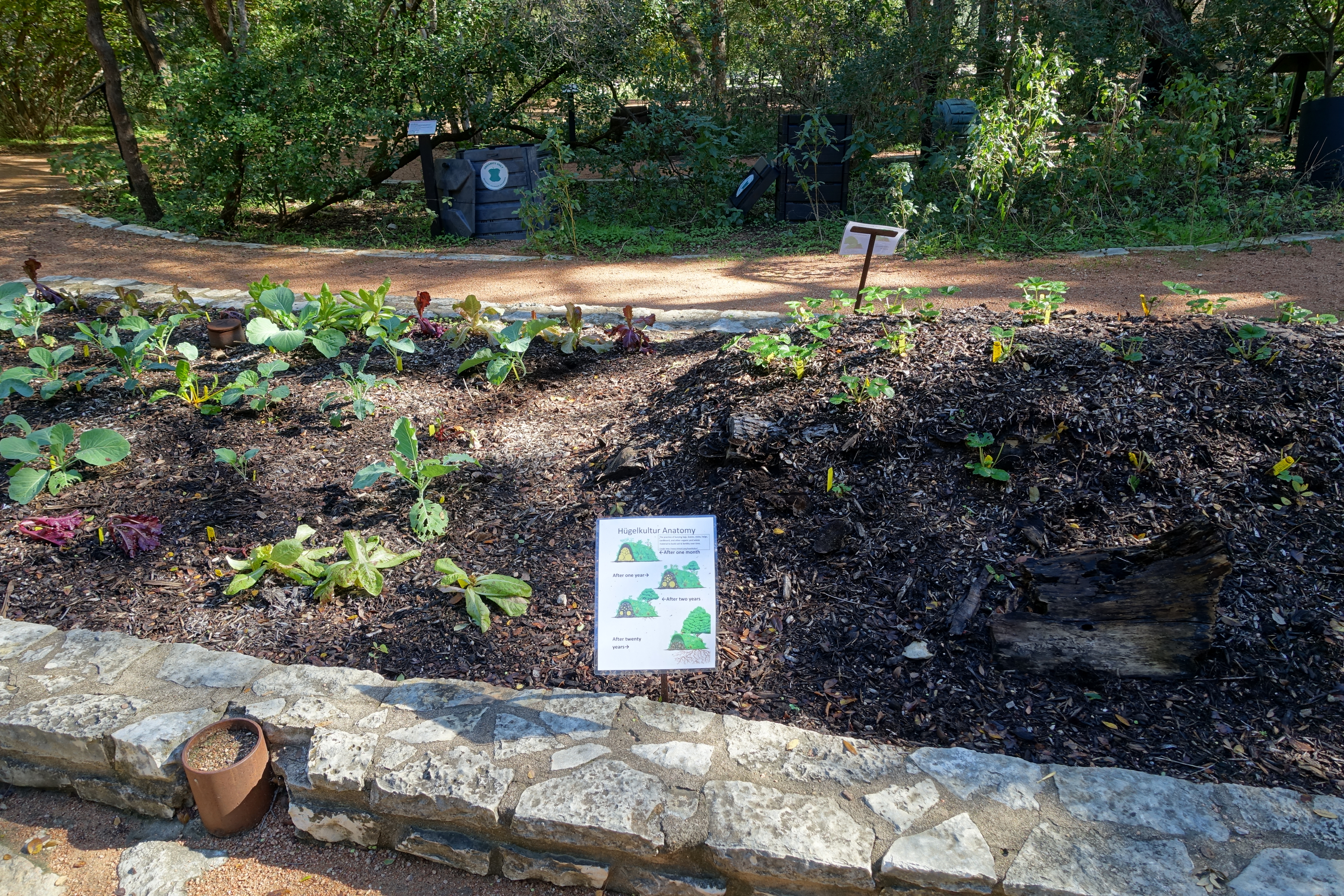 Zilker Botanical Garden - Austin, Texas, USA.